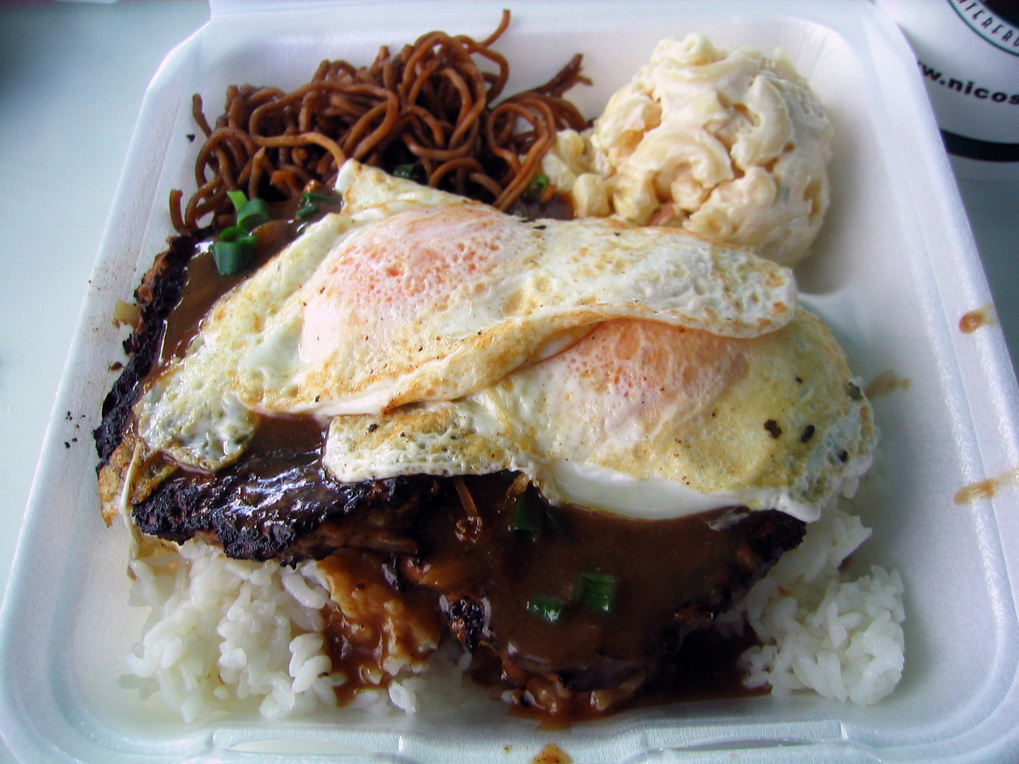 Loco moco, Hawaii's well-known food, at Nico's Restuarant at Pier 38 in Honolulu: two fried eggs over two exquisite hamburger patties, two scoops rice, gravy, macaroni salad and boiled soba noodles (with cinnamon and nutmeg).